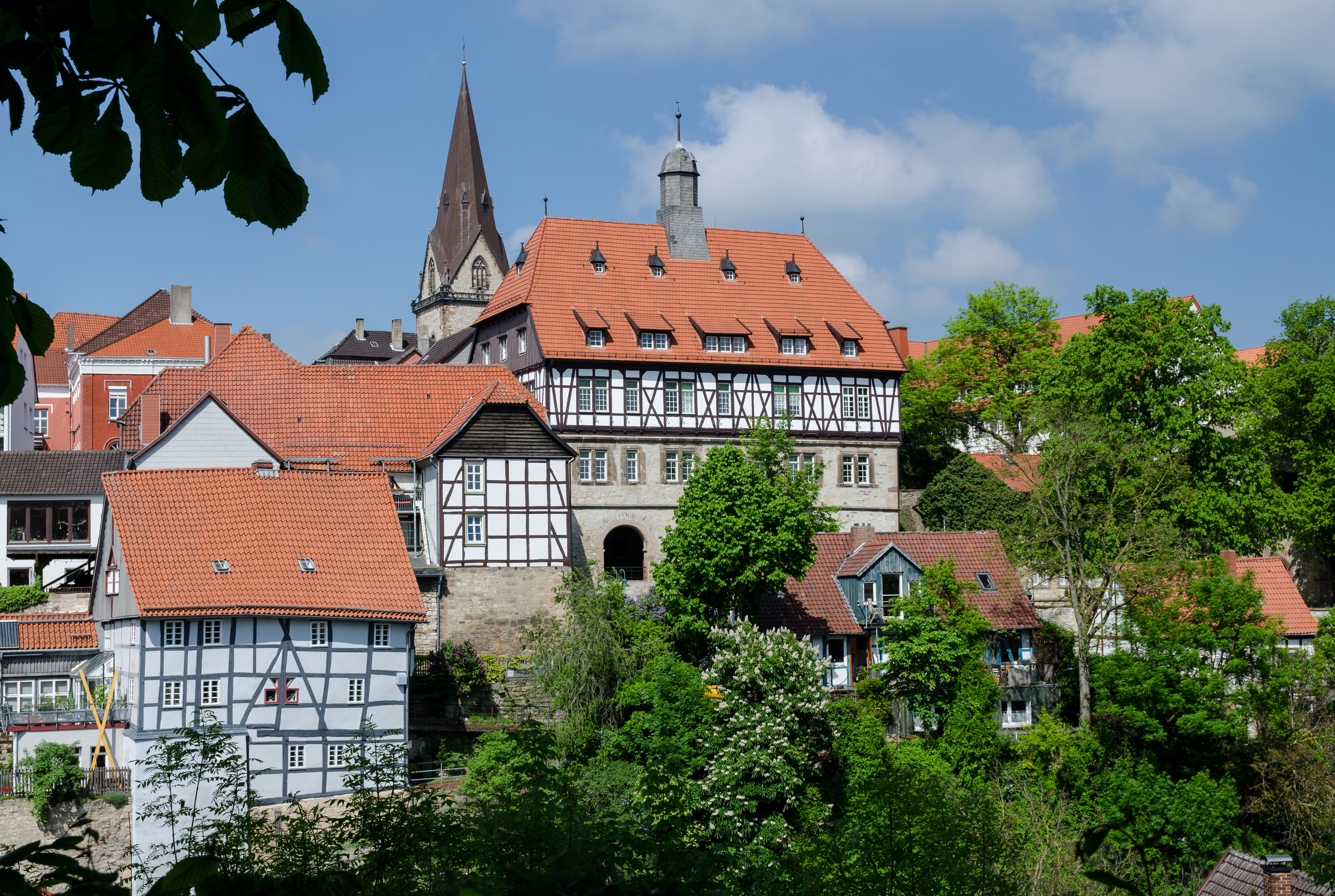 Warburg with over Town Hall and Church of new town